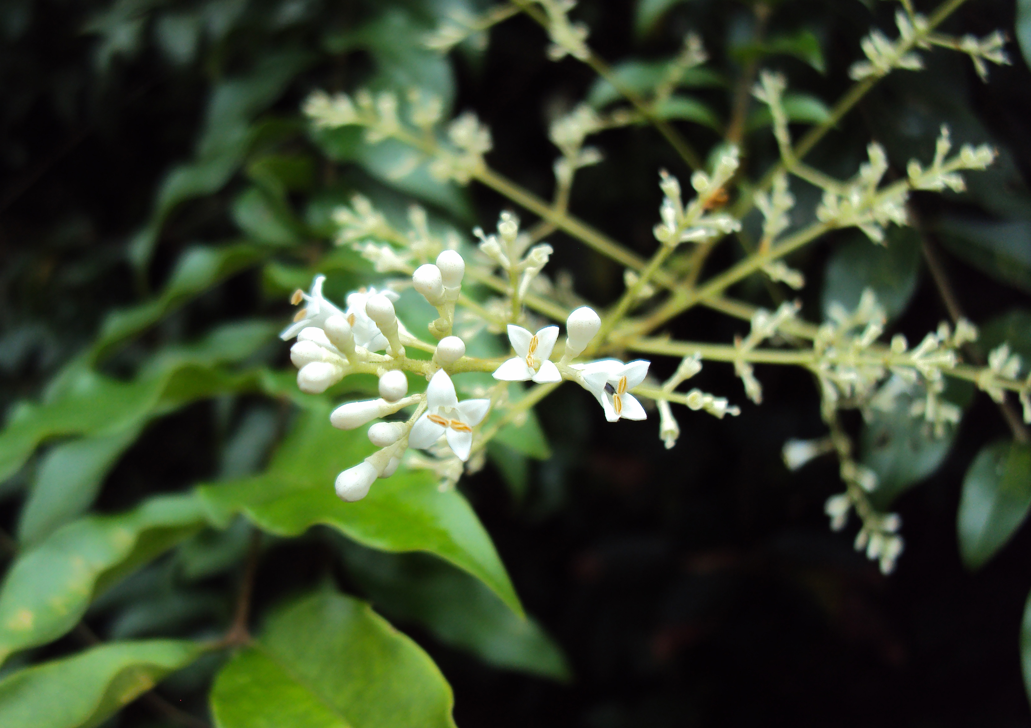 Ligustrum robustum ssp. walkeri